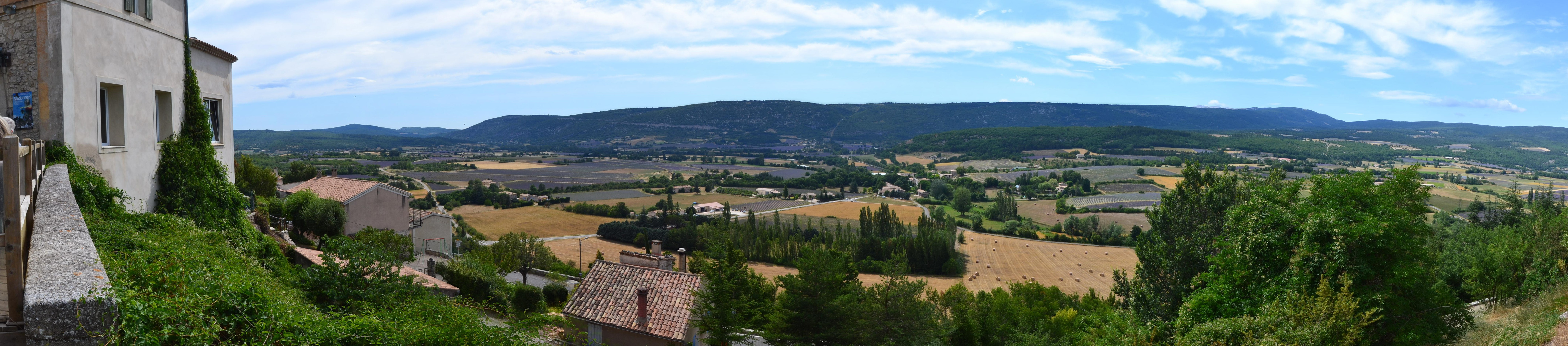 Landscape near Sault, Vaucluse, France. Panoramic made using AutoStitch from photos taken on July 16, 2019.